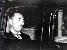 Japanese Prime Minister Fumimaro Konoe (近衛文麿, 1891–1945, in office 1937–39 and 1940–41)